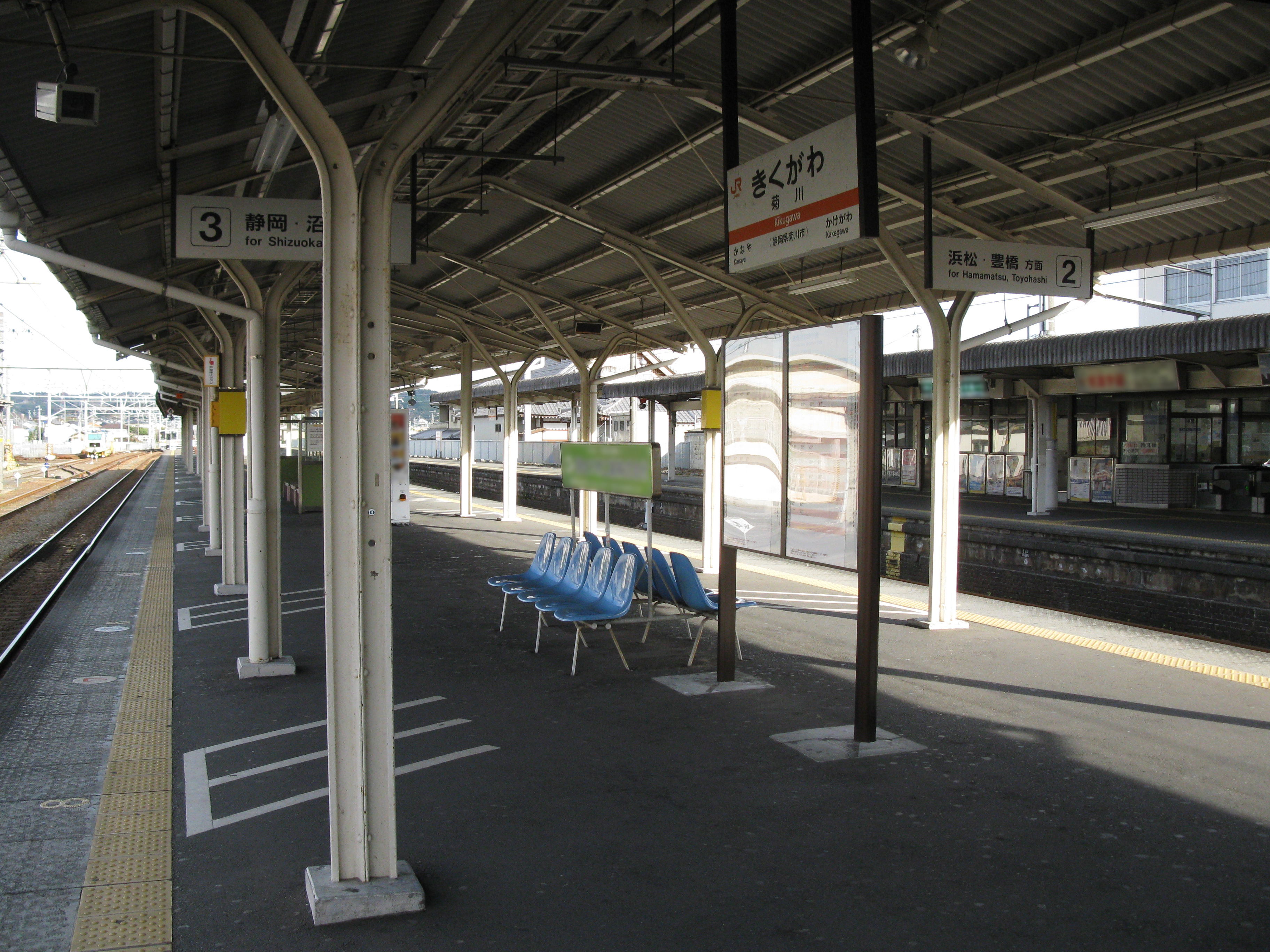 Kikugawa Station platform (Central Japan Railway(JR Central) Tōkaidō Main Line)